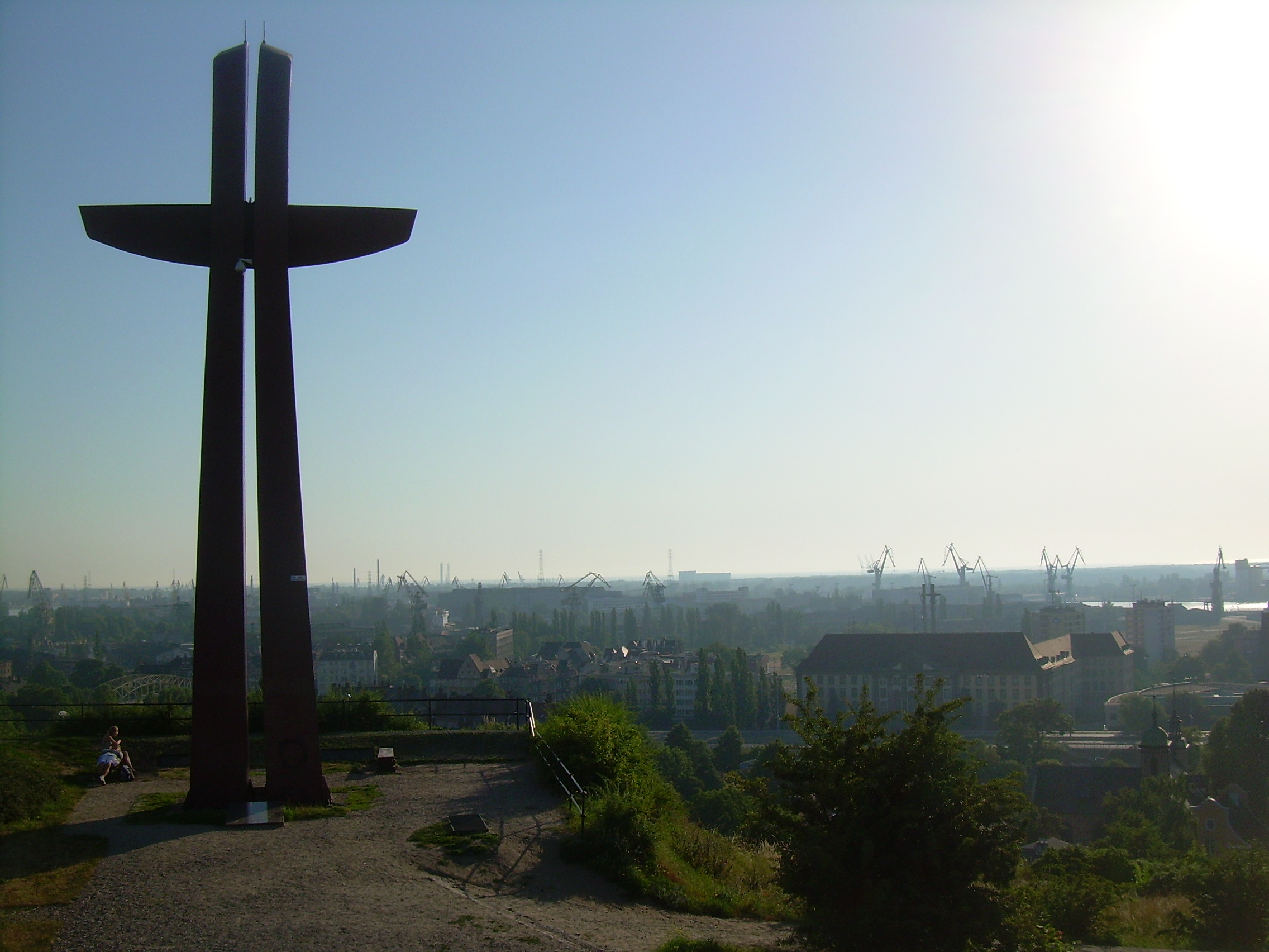 Malbork castle.